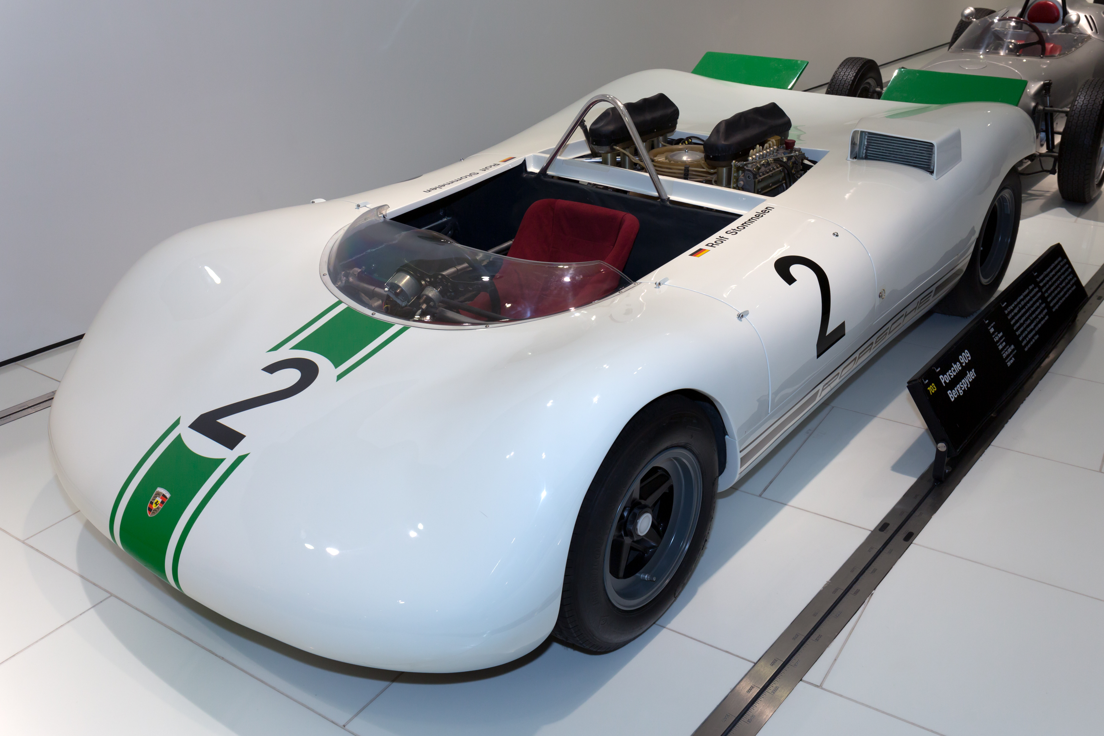 1968 Porsche 909 Bergspyder